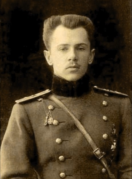 The staff captain S. Wojciechowski — a graduate of Imperial Nicholas General Staff Academy. Russia, 1912